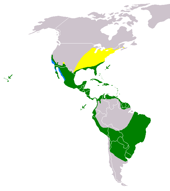 Gallinula galeata world distribution map based on data from Handbook of the Birds of the World (del Hoyo et al.) and regional field guides. Yellow: breeding summer visitor Green: breeding resident Blue: non-breeding winter visitor